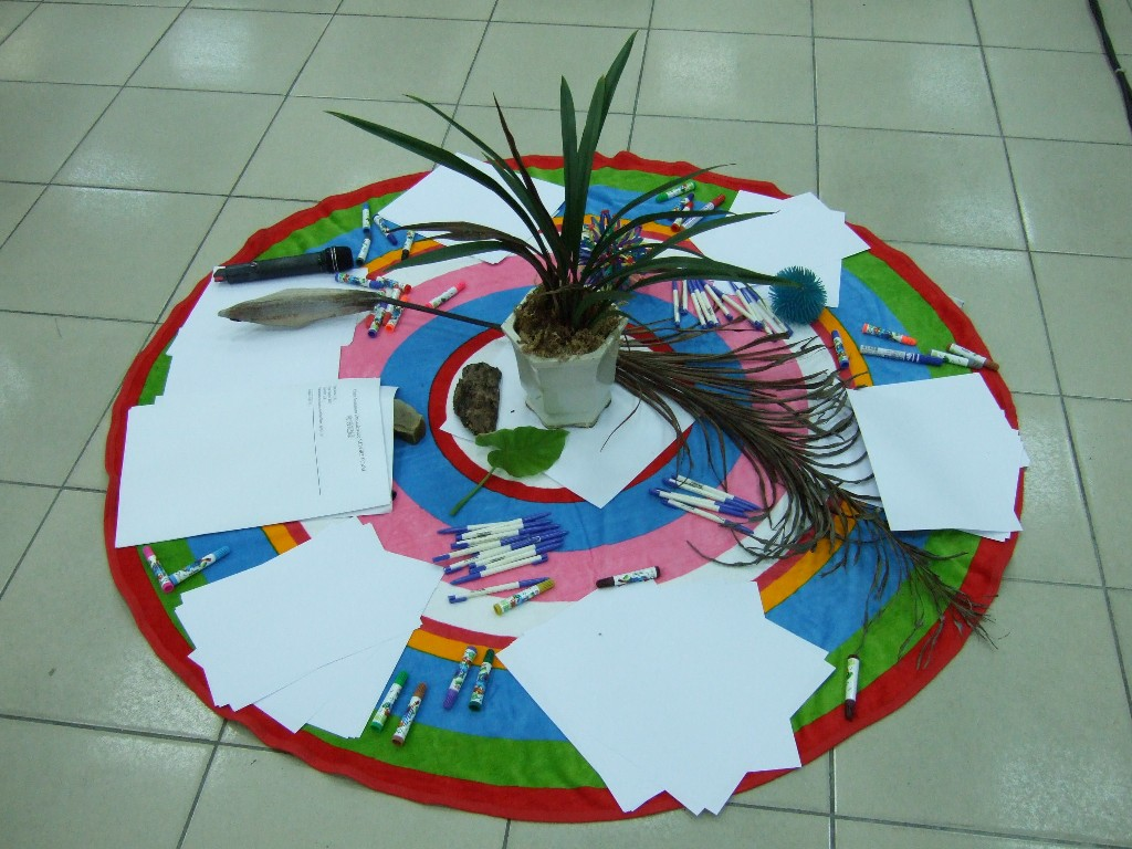 Some useful materials found in the center of the 2007 Citizen Journalism Unconference